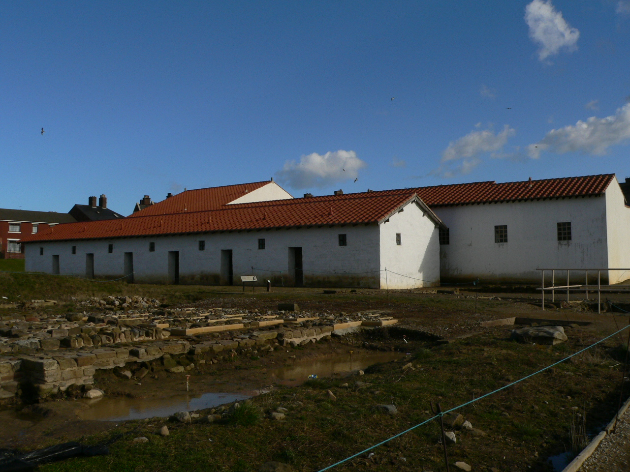 The reconstructed barrack-block at Arbeia Roman Fort, in South Shields, near Newcastle upon Tyne in northeast England.